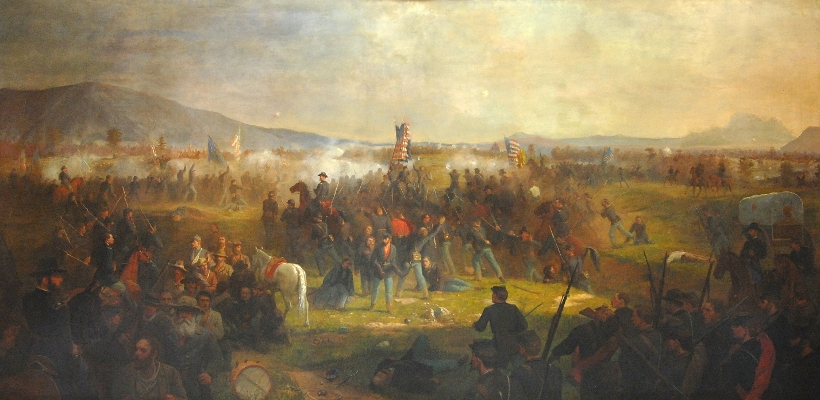 Vermont Union troops rally around the colors in the battle of Cedar Creek